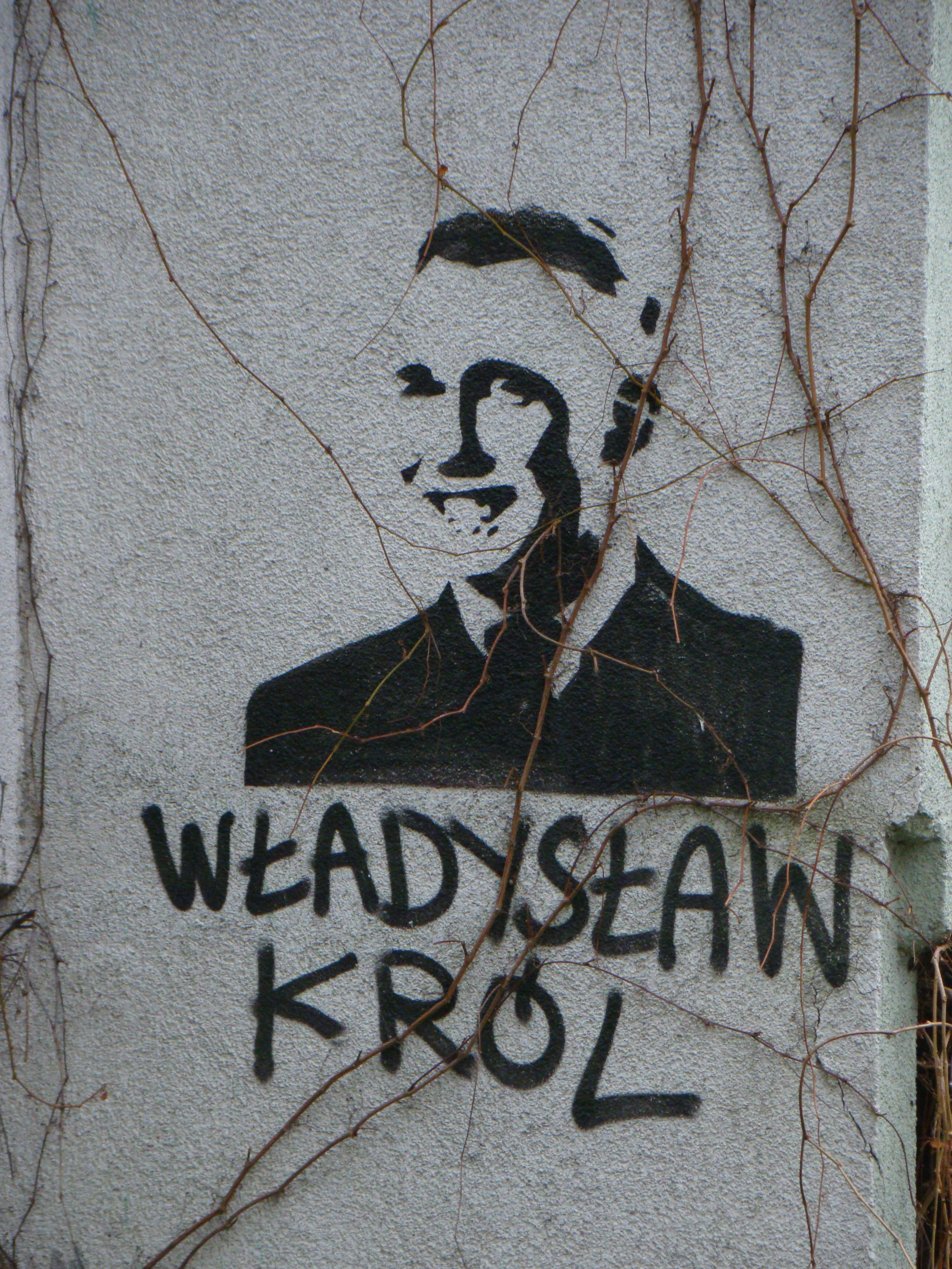 Graffiti in Łódź